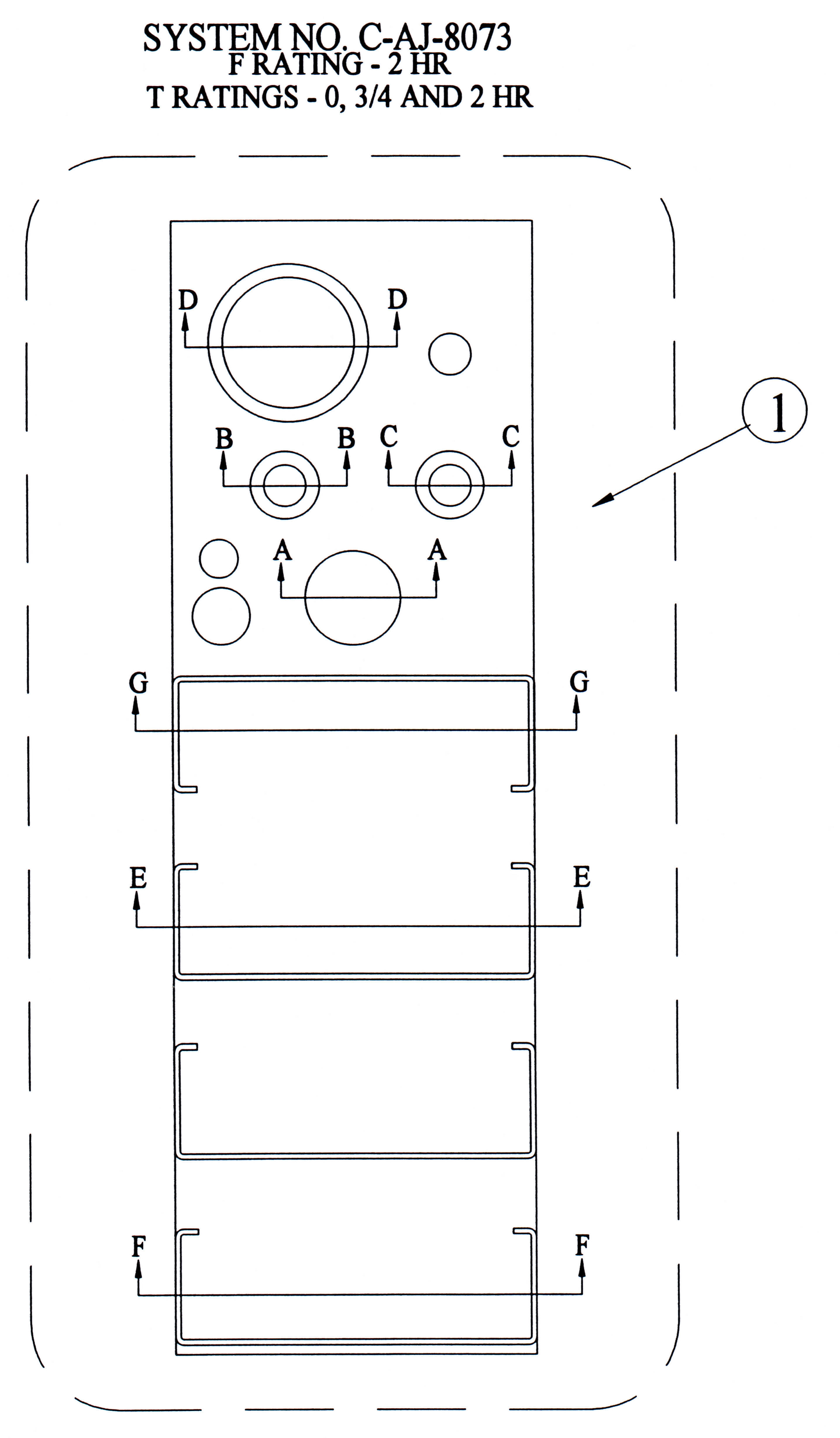 Top picture of Firestop Certification Listing. Certification listings are considered public domain, as access must be provided to Authorities Having Jurisdiction as well as the public for proving compliance of field installations with building codes.